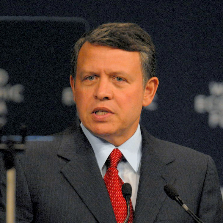 SHARM EL SHEIKH/EGYPT, 18MAY08 - H.M. King Abdullah Ibn Al Hussein of the Hashemite Kingdom of Jordan, addressing the Opening Plenary session of the World Economic Forum on the Middle East 2008 held in Sharm El Sheikh, Egypt. Copyright World Economic Forum ( Watch this session on the World Economic Forum's YouTube channel.